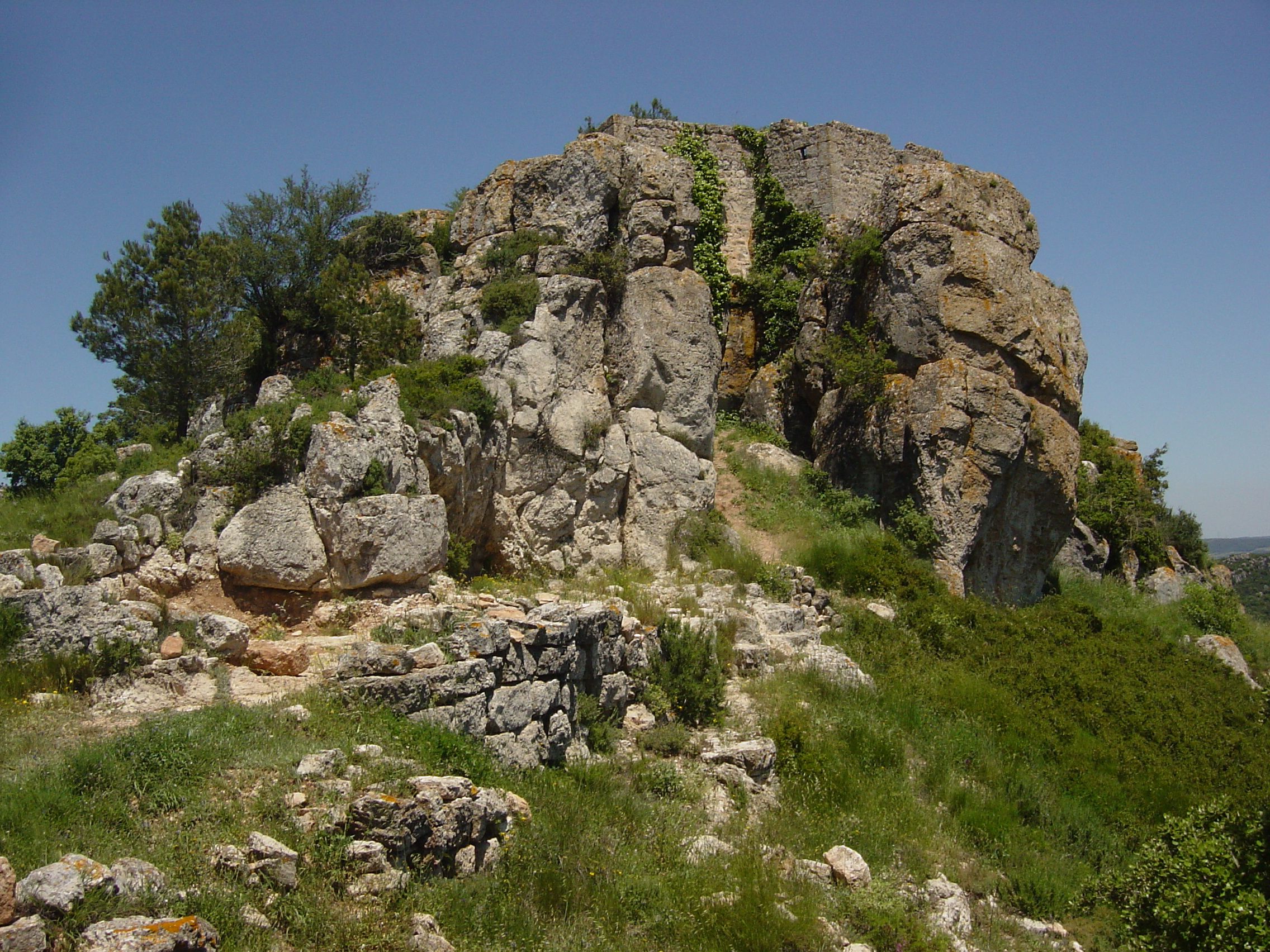 Selmella Castle ruins